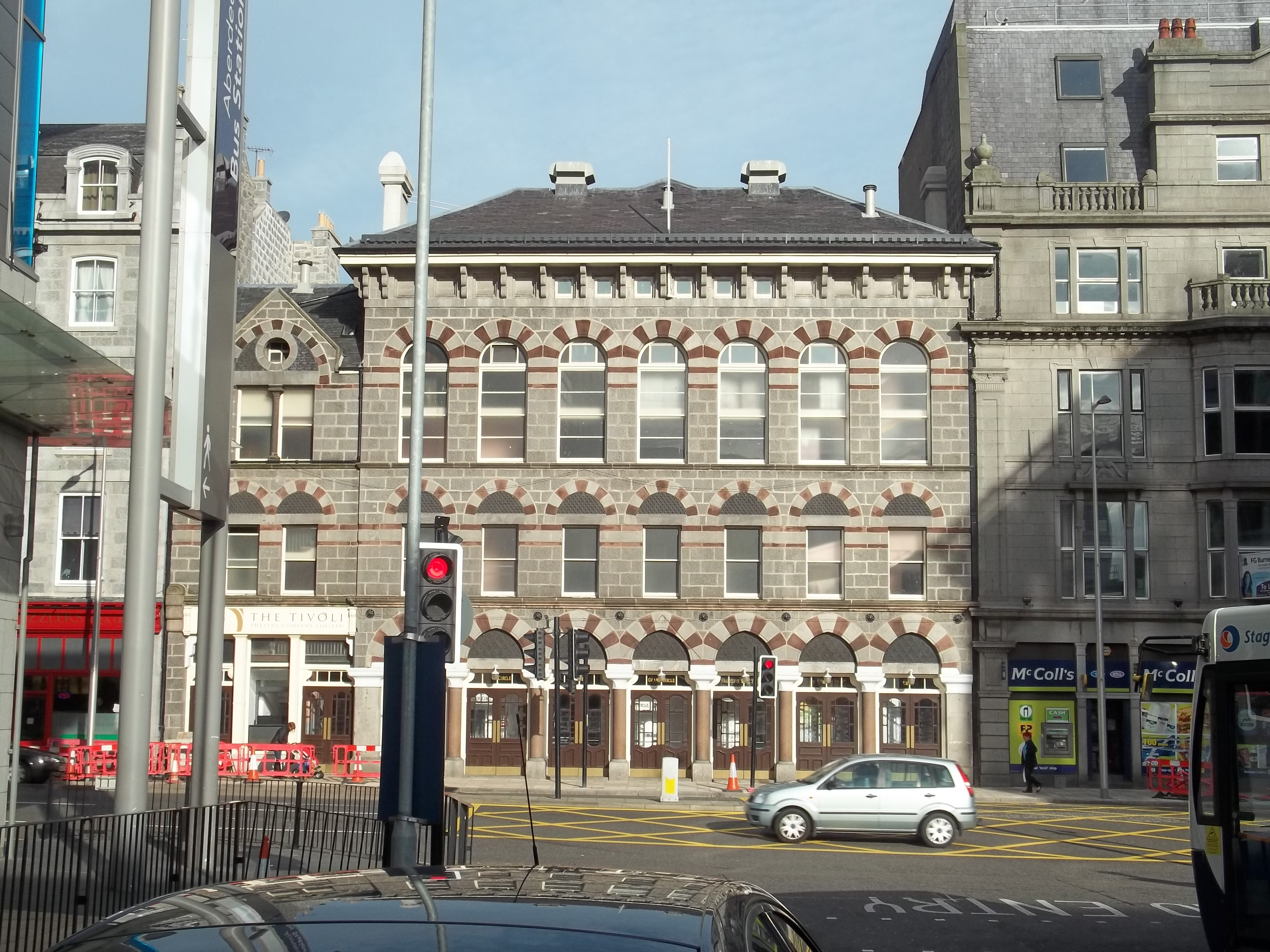 The Tivoil, Guild St, Aberdeen, Scotland